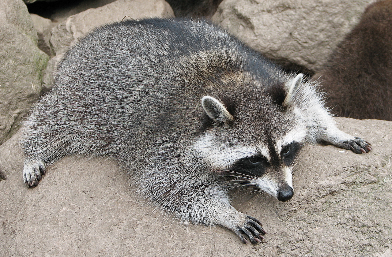 This is a featured picture on the Turkish language Wikipedia (Seçkin resimler) and is considered one of the finest images. If you think this file should be featured on Wikimedia Commons as well, feel free to nominate it. If you have an image of similar quality that can be published under a suitable copyright license, be sure to upload it, tag it, and nominate it. azərbaycanca · Bahasa Indonesia · Bahasa Melayu · català · čeština · Cymraeg · dansk · Deutsch · eesti · English · español · Esperanto · euskara · français · Gagauz · galego · hrvatski · italiano · Lëtzebuergesch · lietuvių · magyar · Malti · Plattdüütsch · Nederlands · norsk bokmål · norsk nynorsk · polski · português · português do Brasil · română · Schweizer Hochdeutsch · sicilianu · slovenščina · suomi · svenska · Tagalog · Tiếng Việt · Türkçe · Yorùbá · Zazaki · Ελληνικά · беларуская (тарашкевіца) · қазақша · македонски · нохчийн · русский · српски / srpski · татарча/tatarça · українська · հայերեն · ქართული · हिन्दी · বাংলা · অসমীয়া · मराठी · മലയാളം · தமிழ் · ไทย · 한국어 · 조선말 · 日本語 · 中文（简体） · 中文（繁體） · עברית · فارسی · کوردی · العربية · +/− Beschreibung: Nordamerikanische Waschbär (Procyon lotor) / raccoon Fotograf: Darkone, 5. August 2005